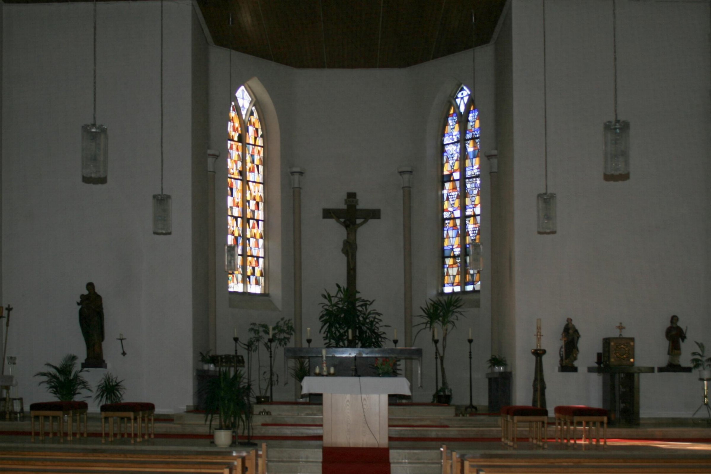 Cultural heritage monument No. 42 in Jülich